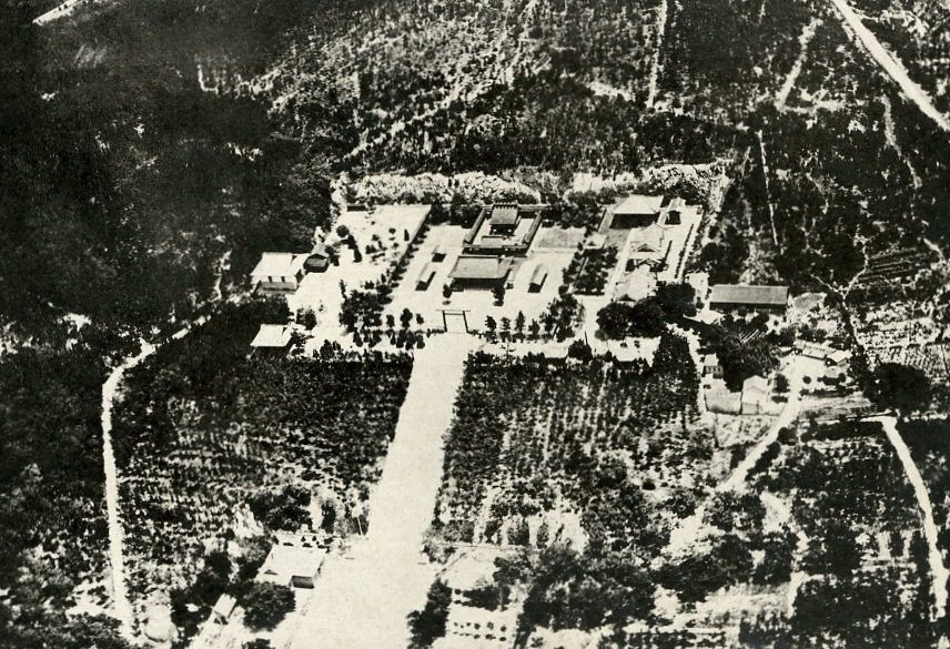 Tstingtau Shrine viewed from above